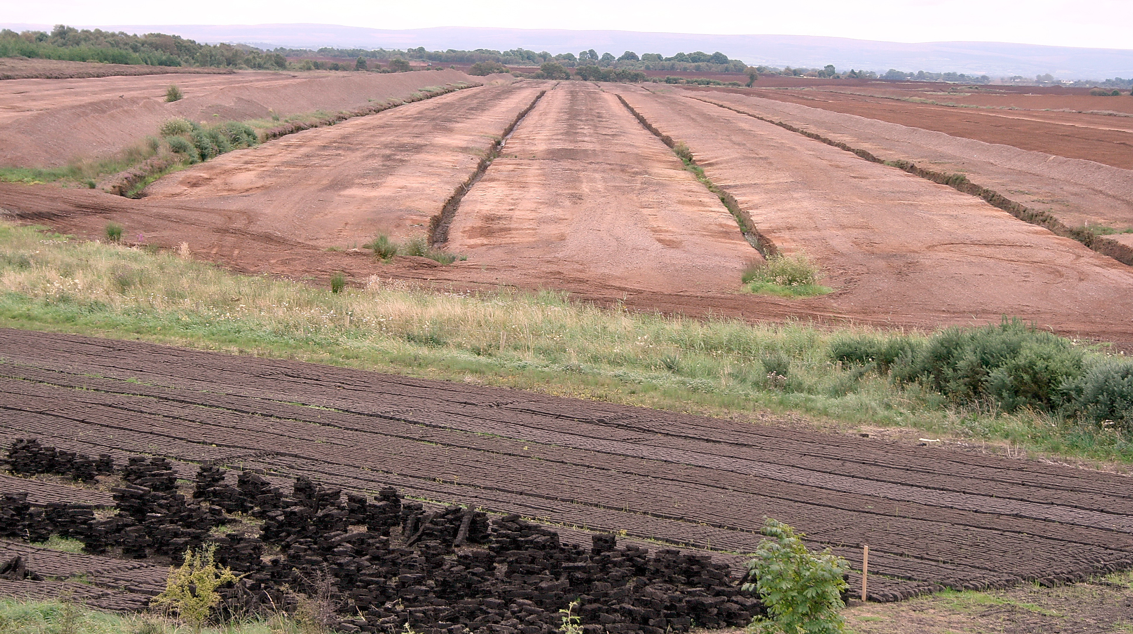 Bord na Mona industrial peat-harvesting in the Bog of Allen, County Offaly, Ireland